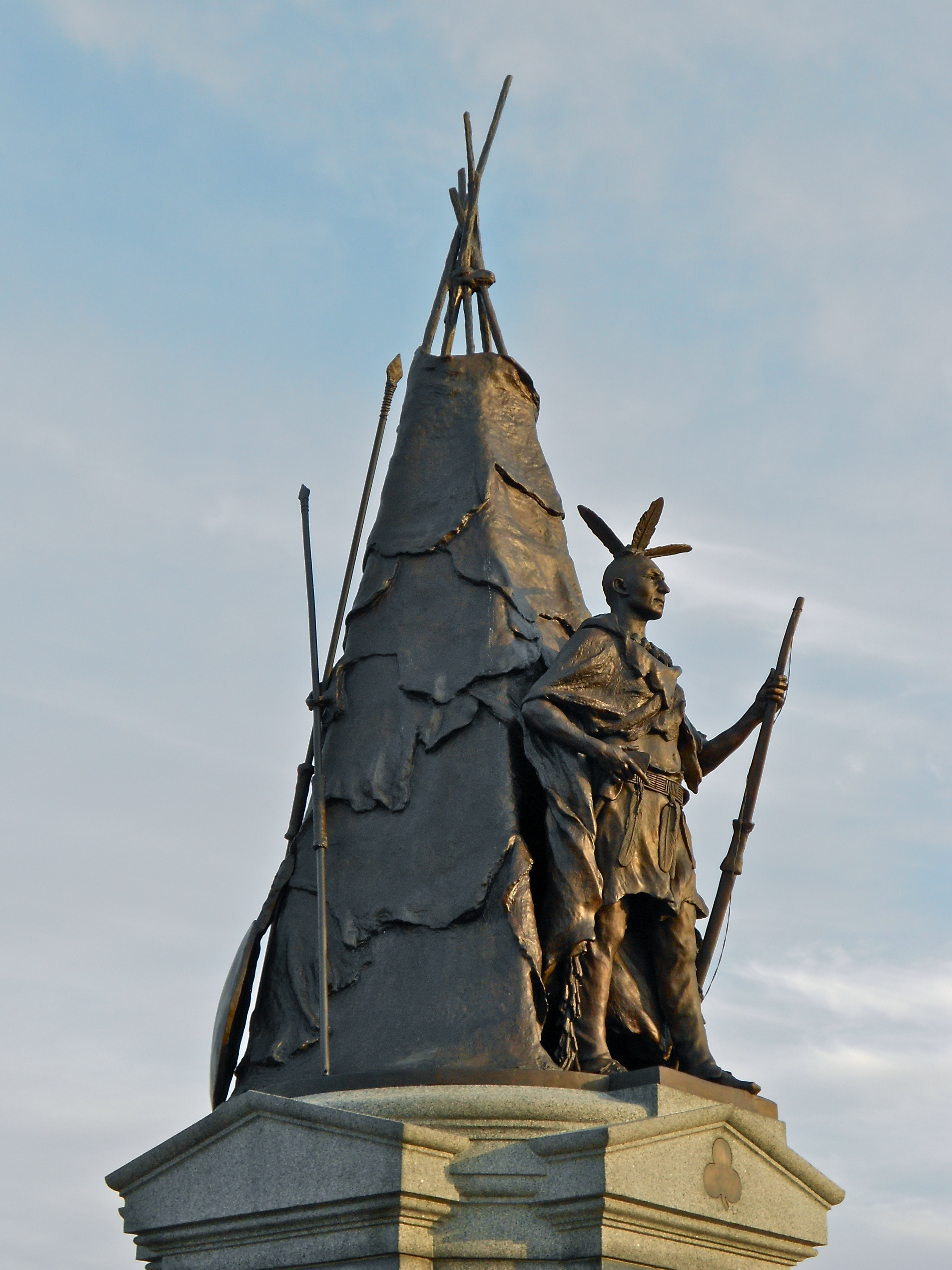 Memorial on the Gettysburg Battlefield to the New york Tammany Regiment.